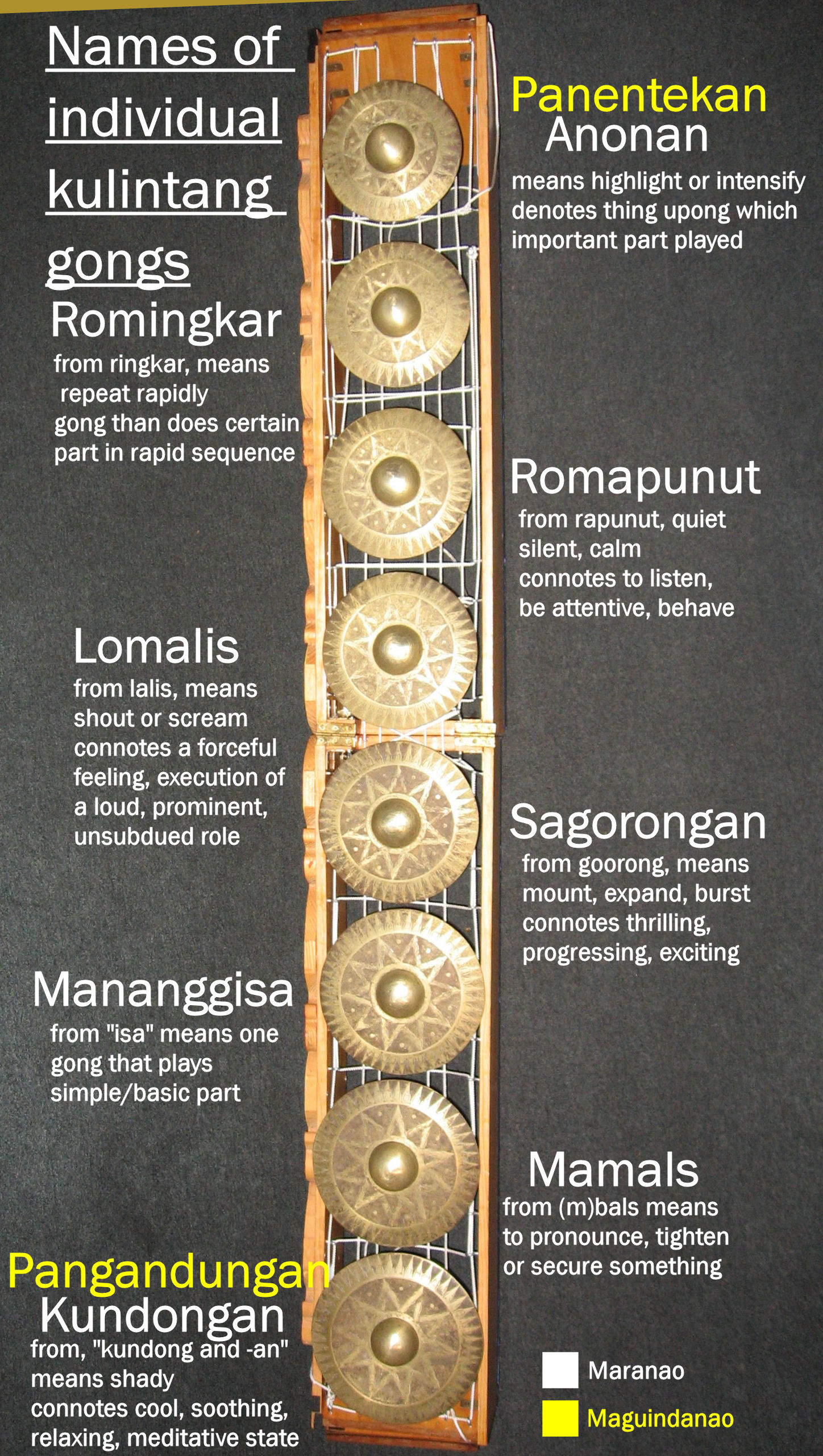 This diagram shows the various names of each of the kulintang gongs for both than Maranao and the Maguindanao.